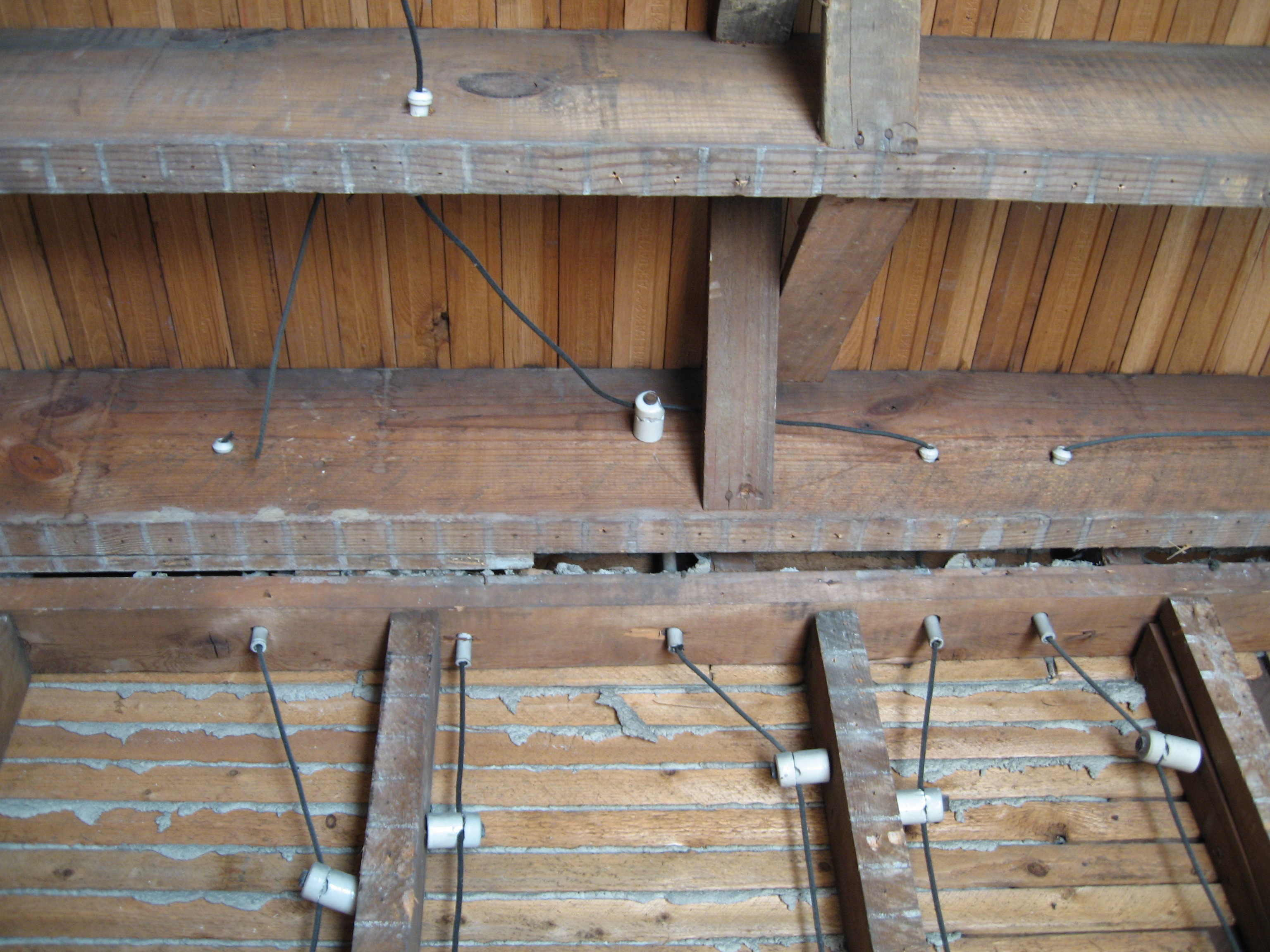 Knob and tube wiring inside a 1930 Pittsburgh house.